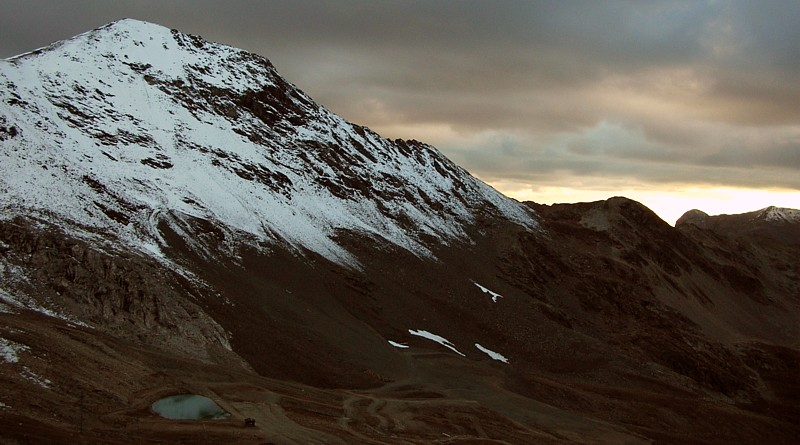 Monte Scorluzzo, seen from the south Picture taken by user Idefix september 2005